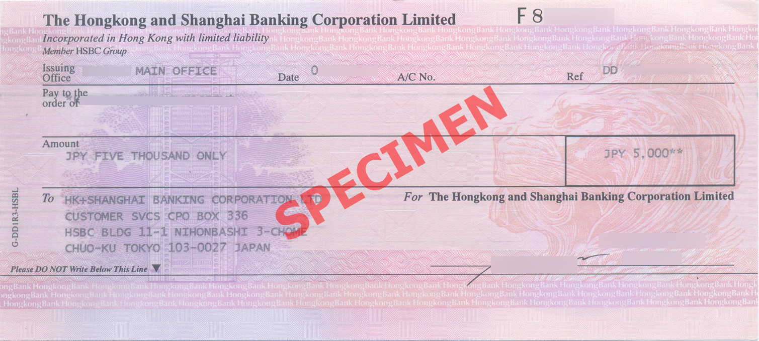 A demand draft JPY5000